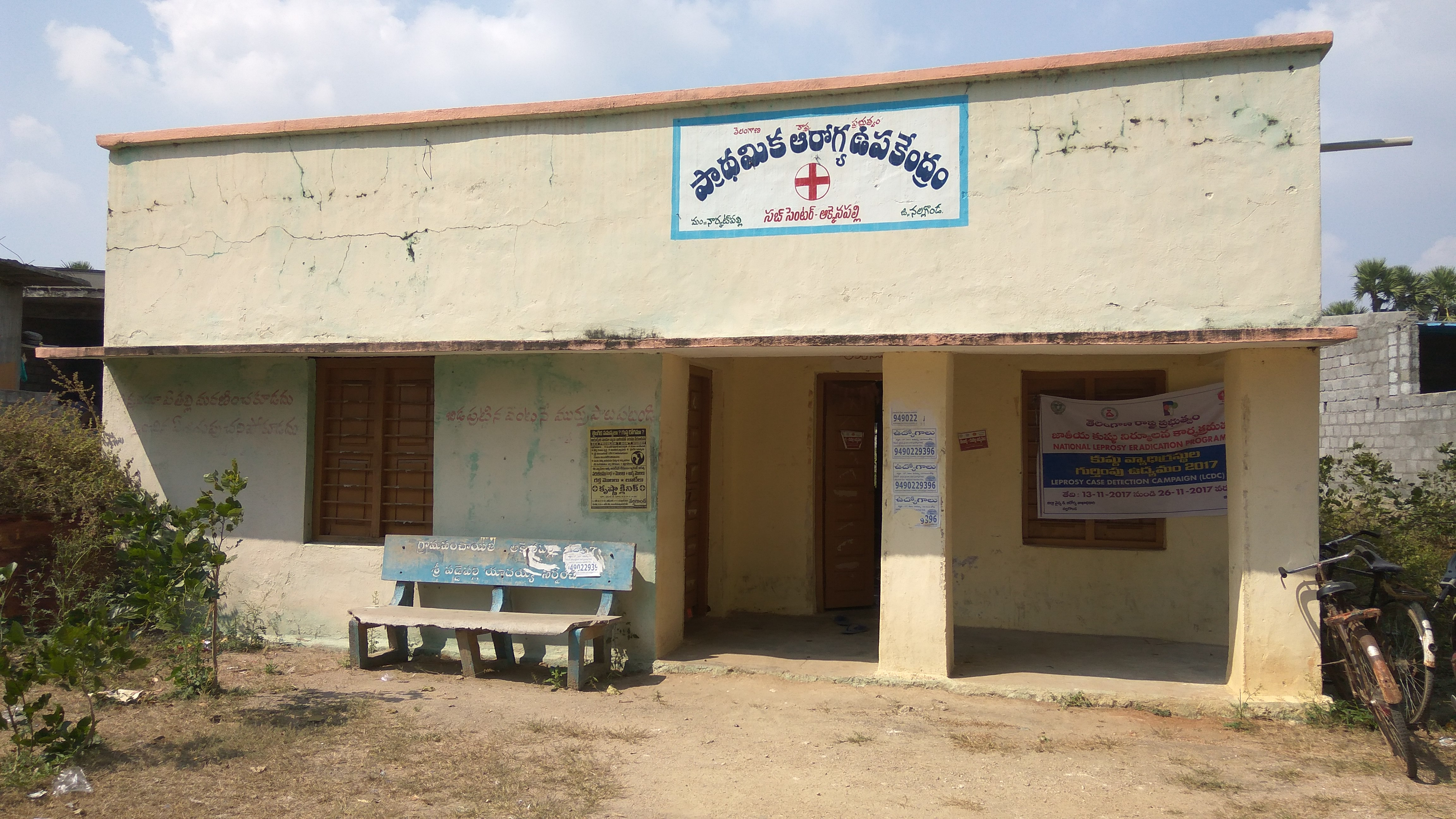 Primary Health Center in Akkenapalli